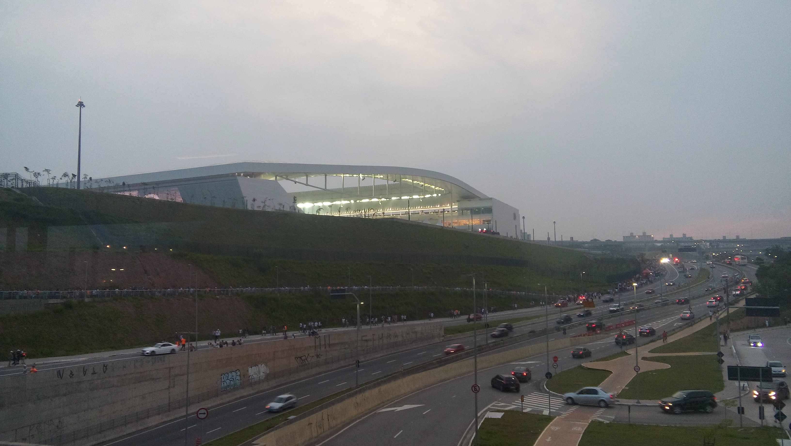 Arena Corinthians view of the SP Metro Itaquera station